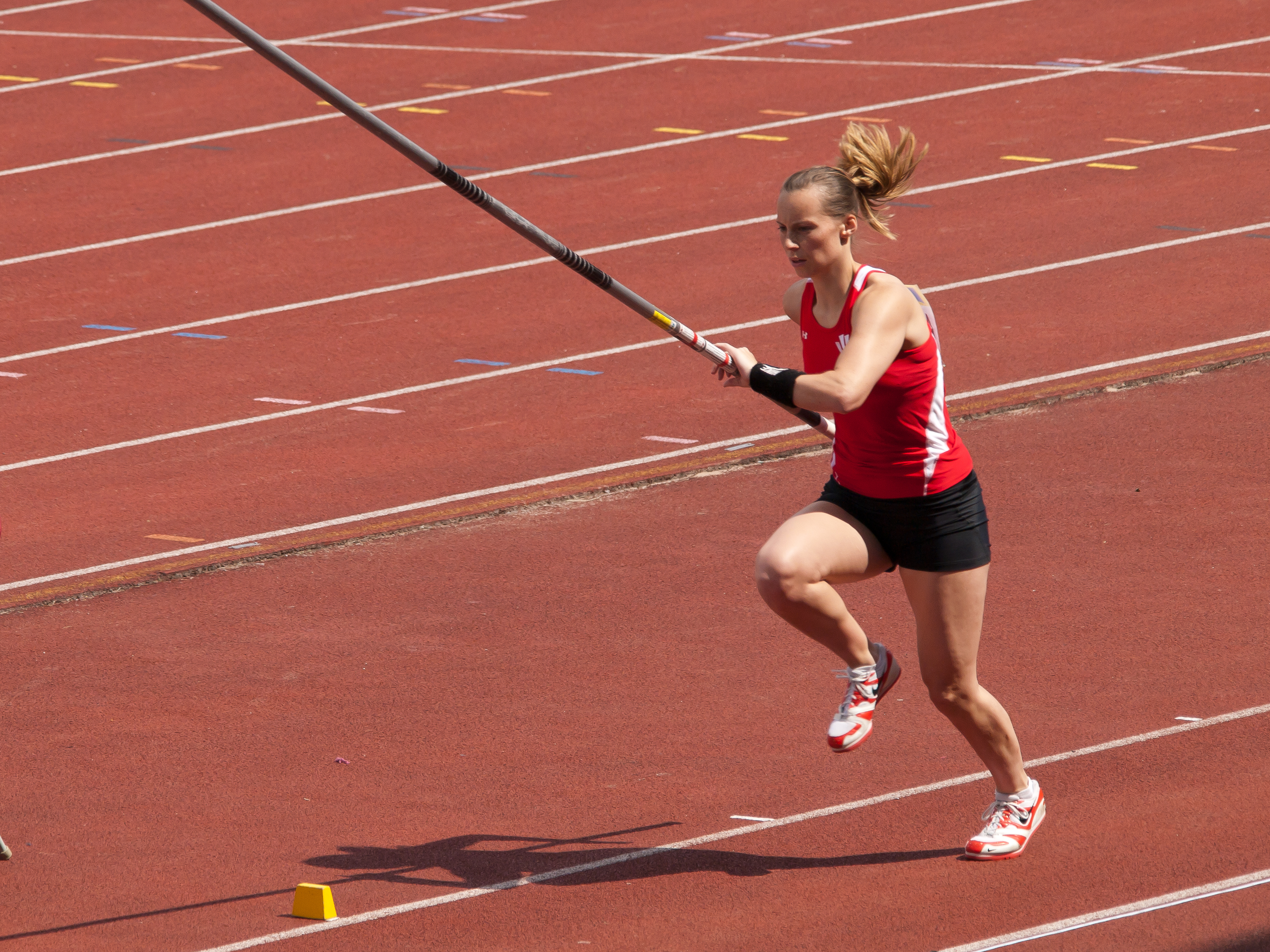 Louise Butterworth in the womens' pole vault event at the Aviva 2010 UK Athletics Championships and European Trials at the Alexandra Stadium in Birmingham